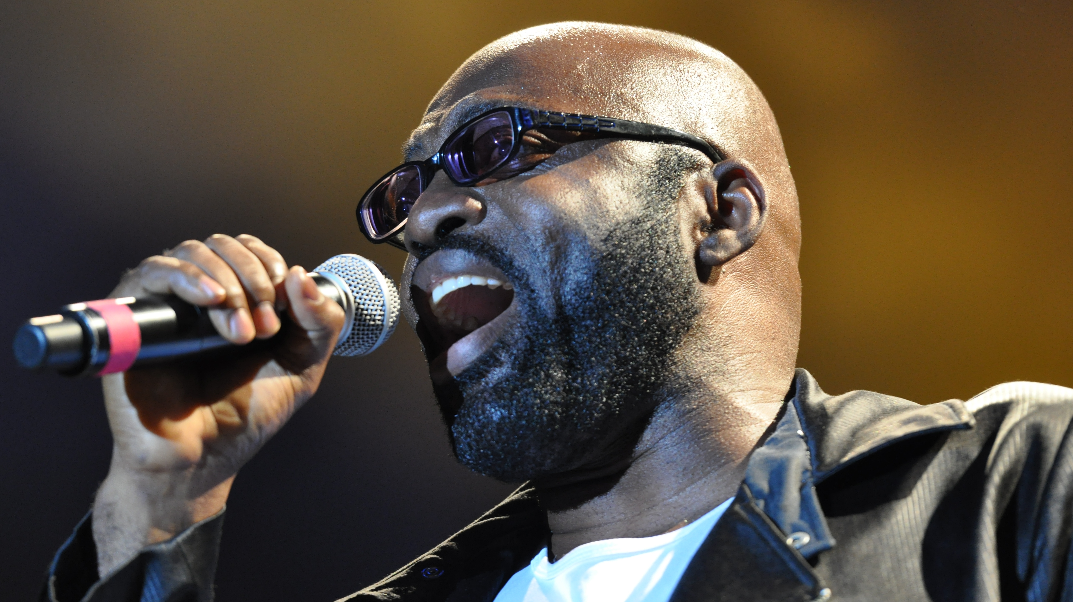 Richie Stephens performing with The Evolution Band on red stage of the Summerjam 2013 in Cologne